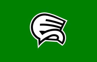 Flag of Shirataka Yamagata